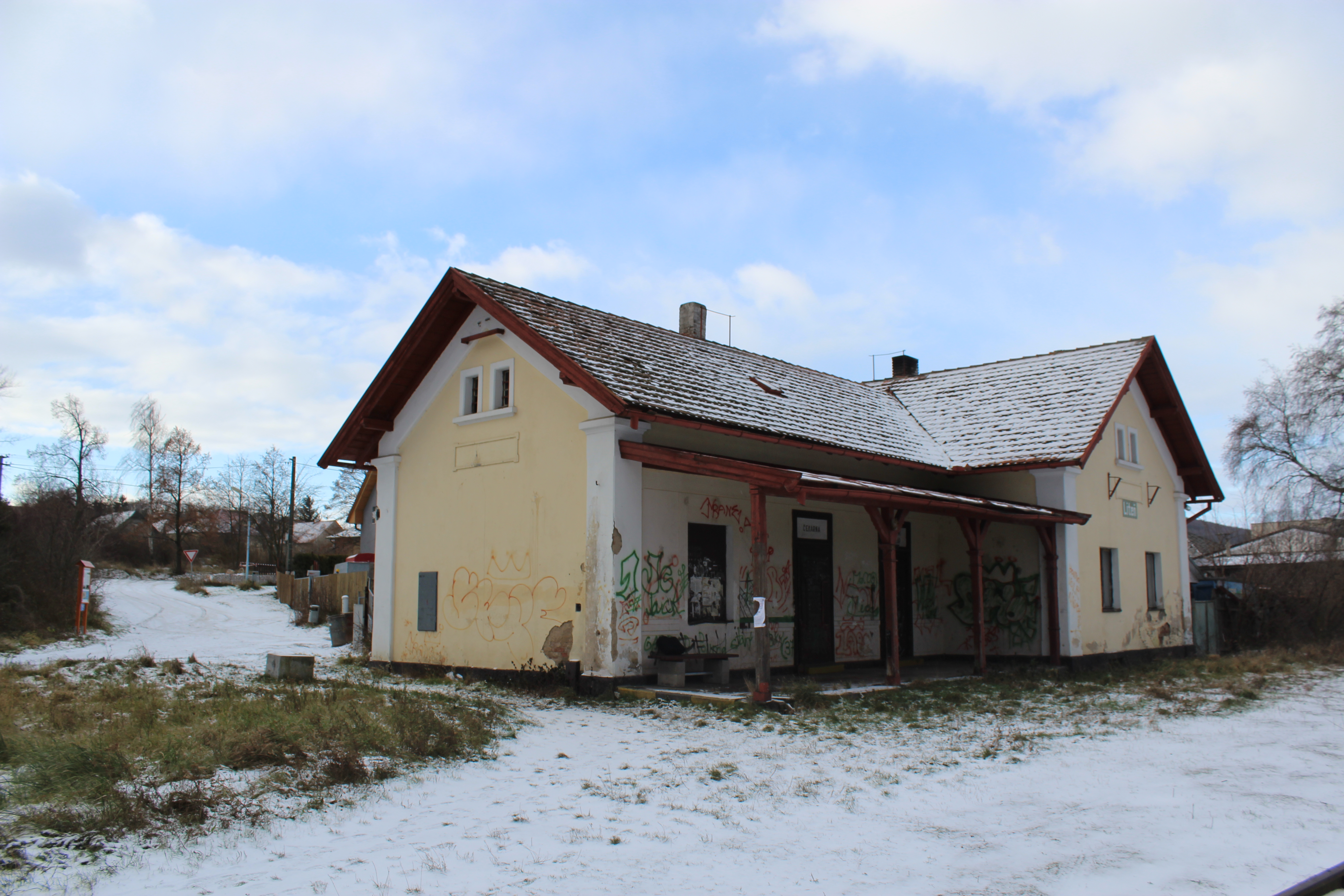 Train station Liteň- Educational trail Liteň